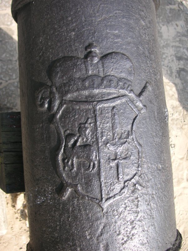 Coat of Arms of bishop Adam Stanisław Grabowski, as featured on a gun he ordered and financed.